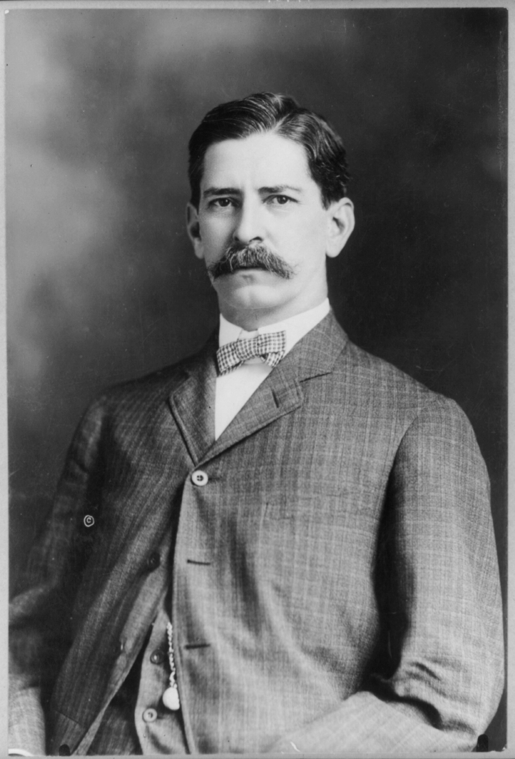 Claude Agustus Swanson, 1862-1939, half-length portrait, facing left